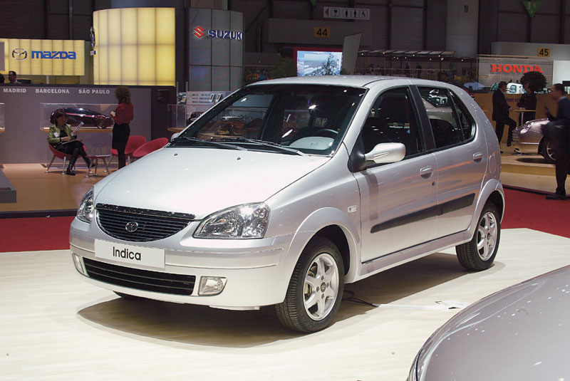 Taken during Auto Expo 2008 New Delhi